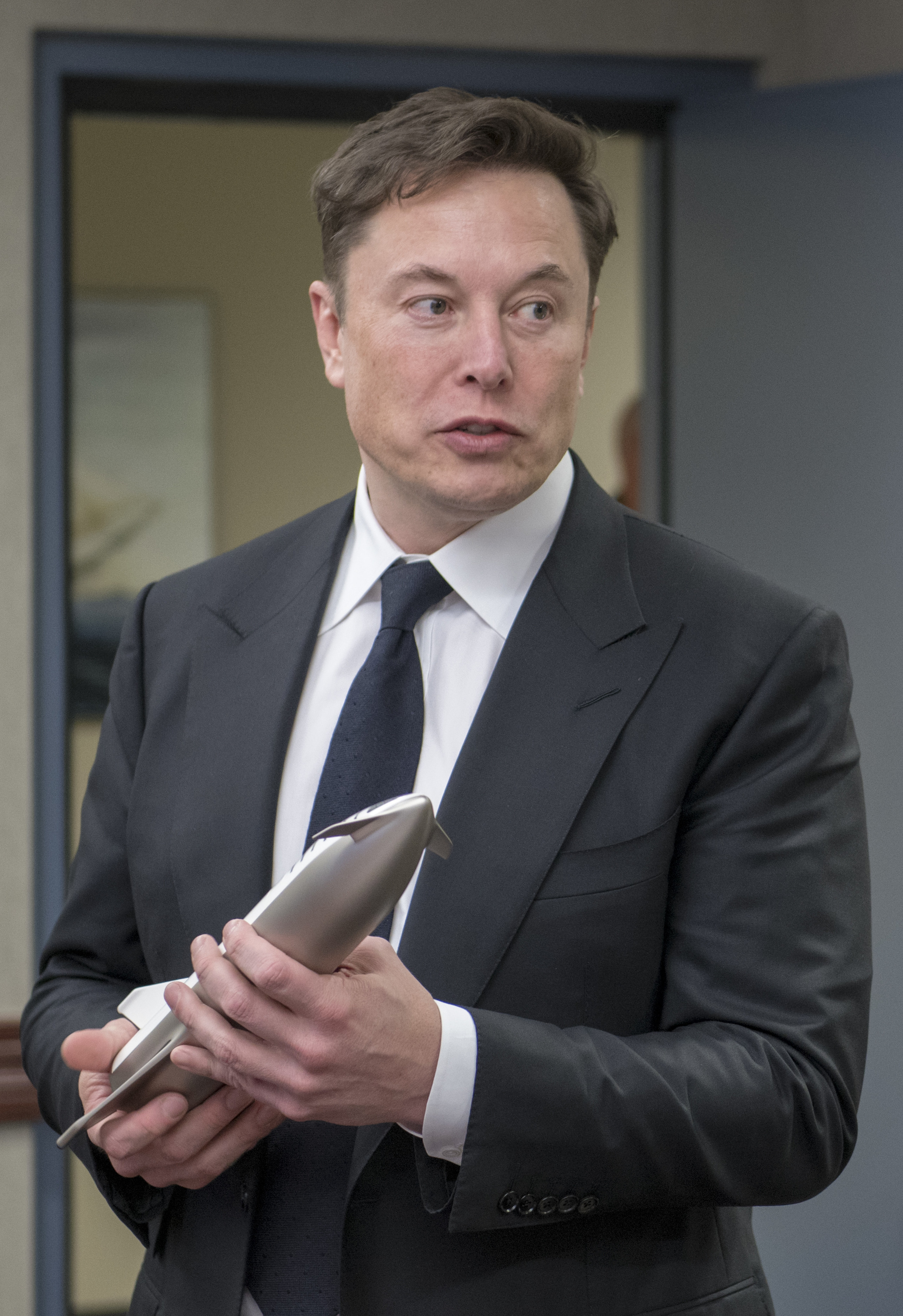 SpaceX CEO Elon Musk explains the future capabilities of his company’s “Starship” to senior leaders of the North American Aerospace Defense Command, U.S. Northern Command, and Air Force Space Command, April 15, 2019. During Musk’s visit to Colorado Springs, Colorado, he participated in conversations and round table briefings about future space operations and homeland defense innovation